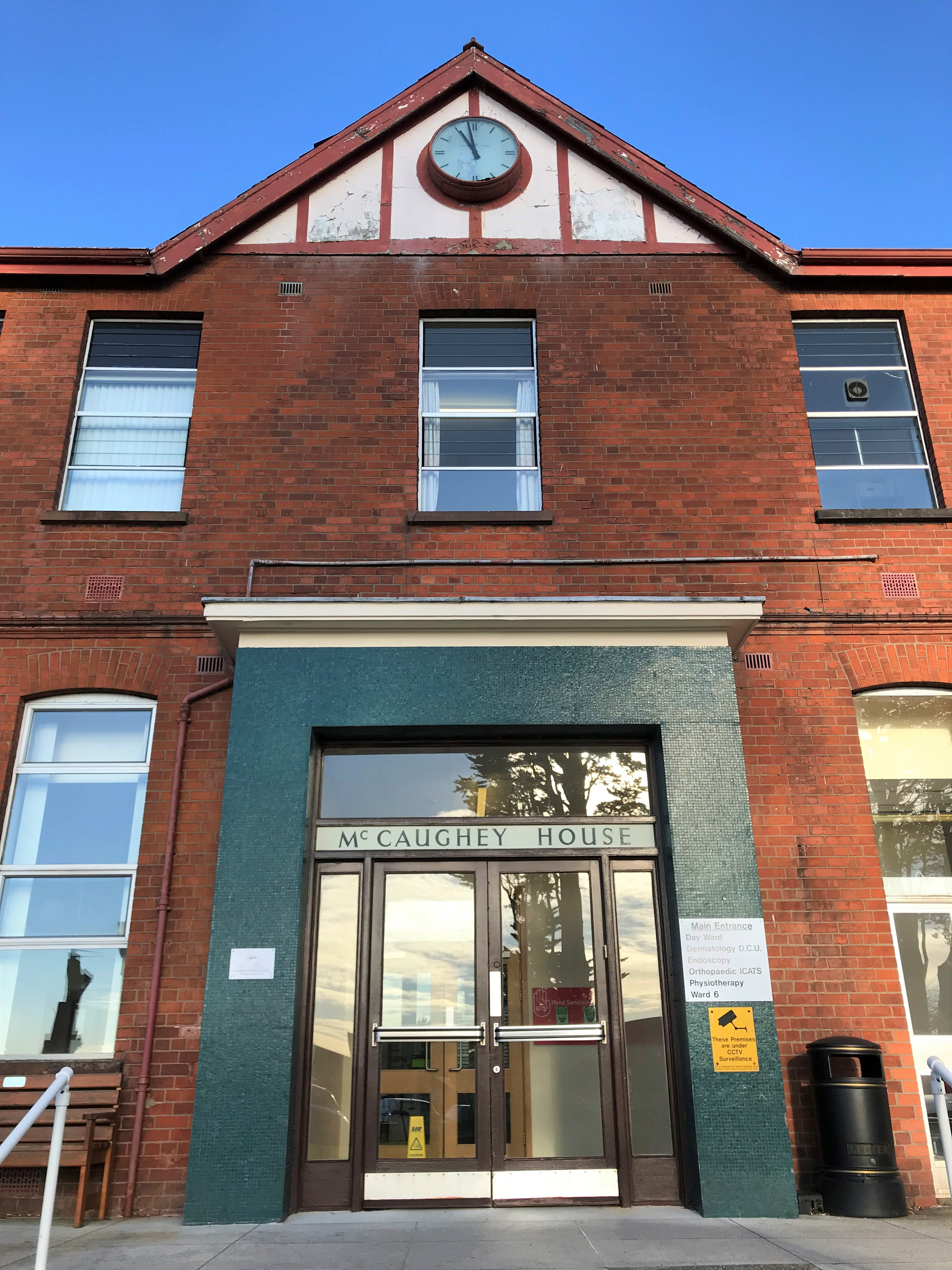 McCaughey House, the main building at Whiteabbey Hospital